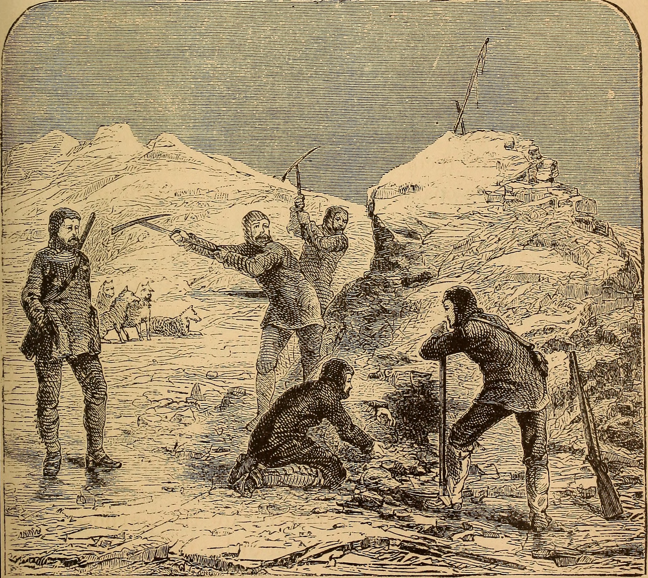 Discovery of John Franklin's cairn Title: The frozen zone and its explorers; a comprehensive record of voyages, travels, discoveries, adventures and whale-fishing in the Arctic regions for one thousand years Year: 1874 (1870s) Authors: Hyde, Alexander, 1814-1881 Baldwin, Abraham Chittenden, 1804-1887, joint author Gage, William Leonard, 1832-1889, joint author Shields, Charles W. (Charles Woodruff), 1825-1904 Subjects: Kane, Elisha Kent, 1820-1857 Polaris (Ship) Publisher: Hartford, Conn. (etc.) Columbia book company Text Appearing Before Image: RELICS OF THE LOST EXPLORERS. Text Appearing After Image: DISCOVERY OF FRANKLINS CAIRN. THE CAIllN AT POINT VICTORY. 649 nearest Britisli consul. Written on this paper weretwo distinct records made at different dates. Tliefirst one, occupying the blank space left for such apurpose, was as follows :— 28th of May, j H. M. Ships Erebus and Terror wintered in 1847. (the ice in Lat. 70^ 5 I^. Long. 98^ 23 W. Having wintered in 1846-7 at Beechey Island, in Lat. 74®.43 28/ )Sr., Long. 91^ 39 15 W., after having ascendedWellington Channel to Lat. 77^ and returned by the westside of Cornwalhs Island. Sir John Franklin commanding the expedition. All well. Party consisting of 2 officers and 6 men left the ships onMonday, 24th of May, 1847.